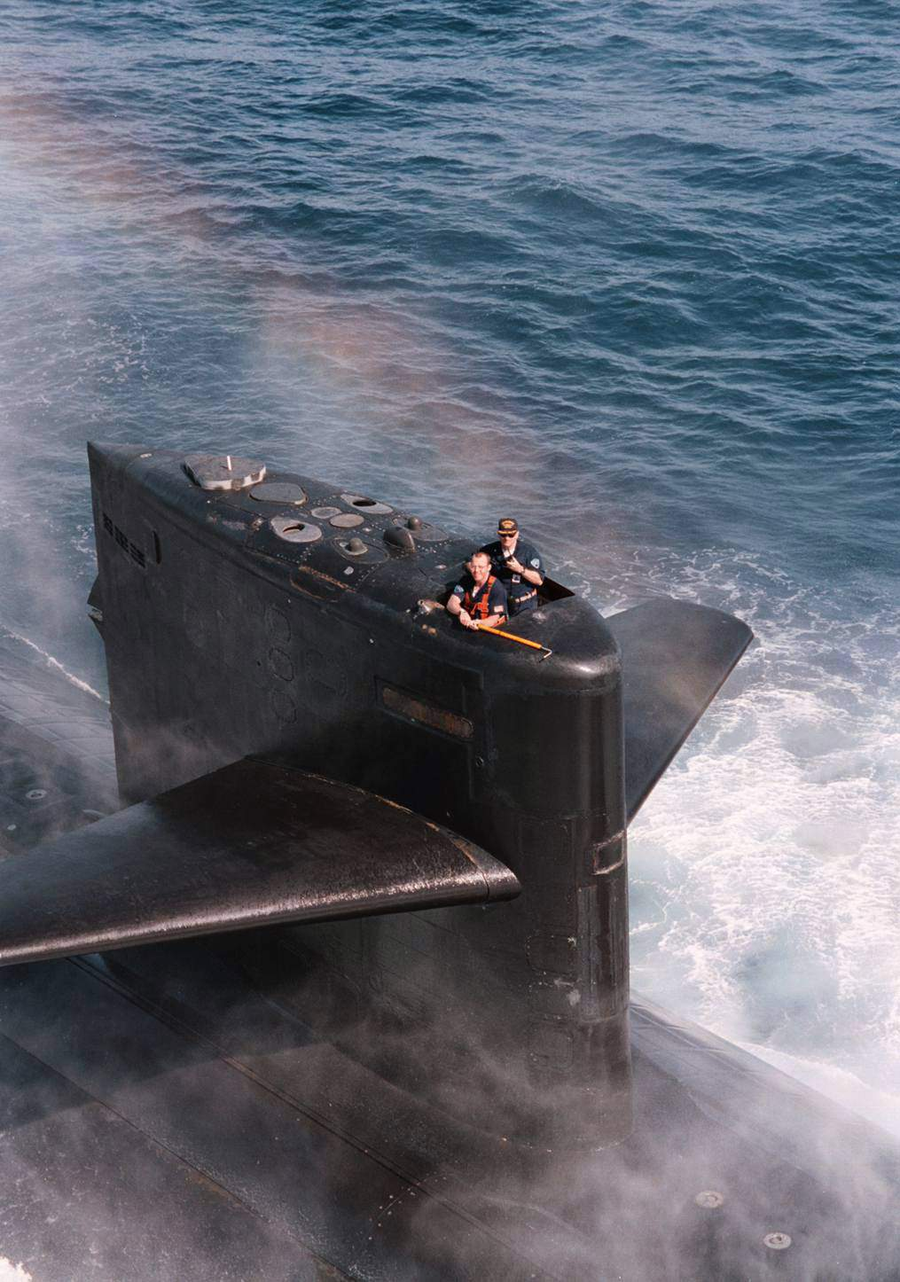 U.S. Navy photo N-2381V-002 by Photographer's Mate 3rd Class Chris Vickers, courtesy of news.navy.mil.